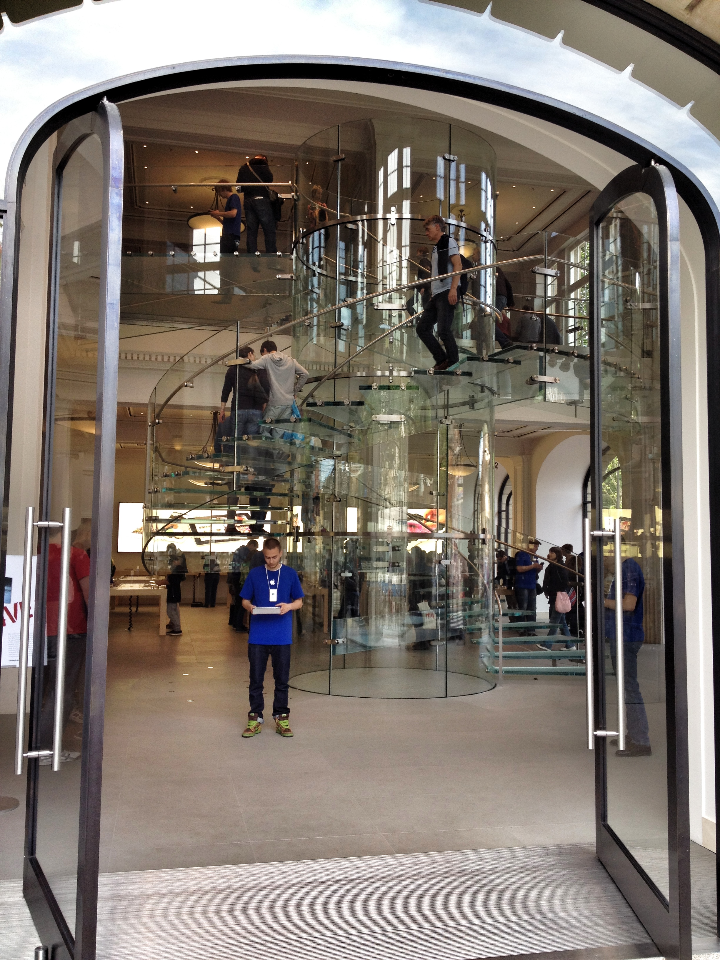 Hirsch Building - Apple Store entrance from street